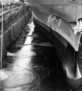 View of the bow of the U.S. Navy anti-submarine aircraft carrier USS Kearsarge (CVS-33) in dry dock at the Long Beach Naval Shipyard, in early 1969. Note the dome of the SQS-23 sonar.